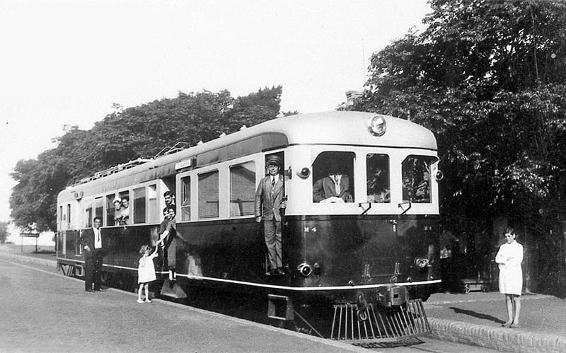 Railcar by Sulzer that ran on FC Provincial de Buenos Aires.